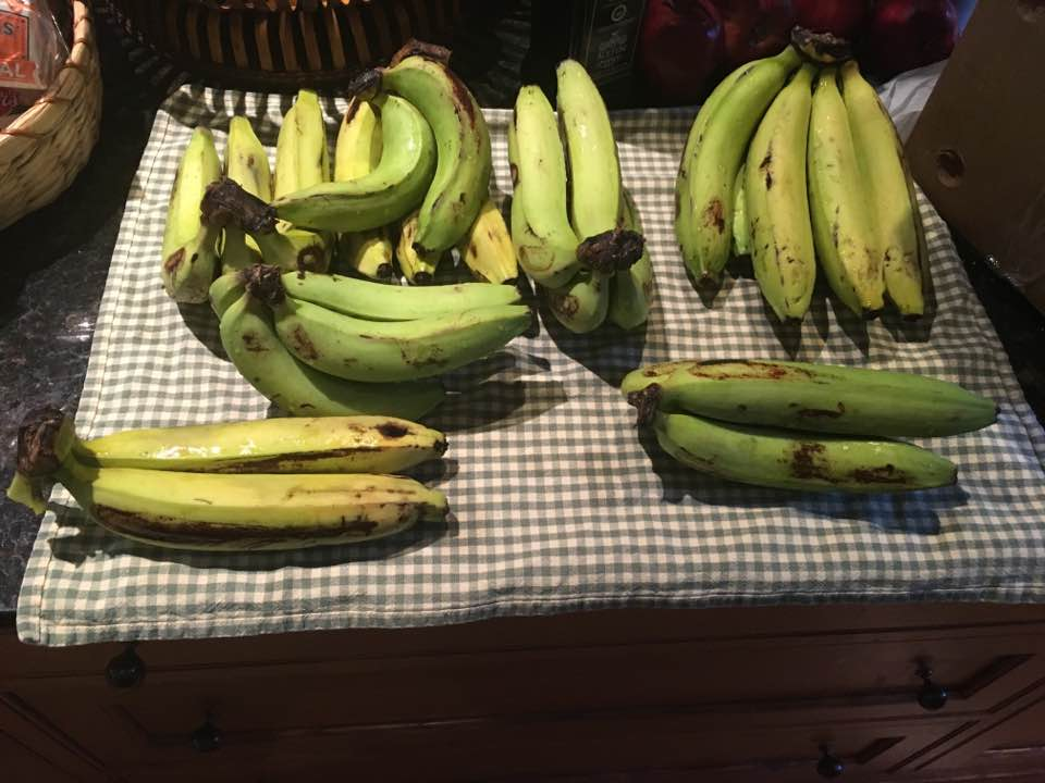 This is about 30 Gros Michel Bananas sitting on a countertop from various angles in various stages of ripening